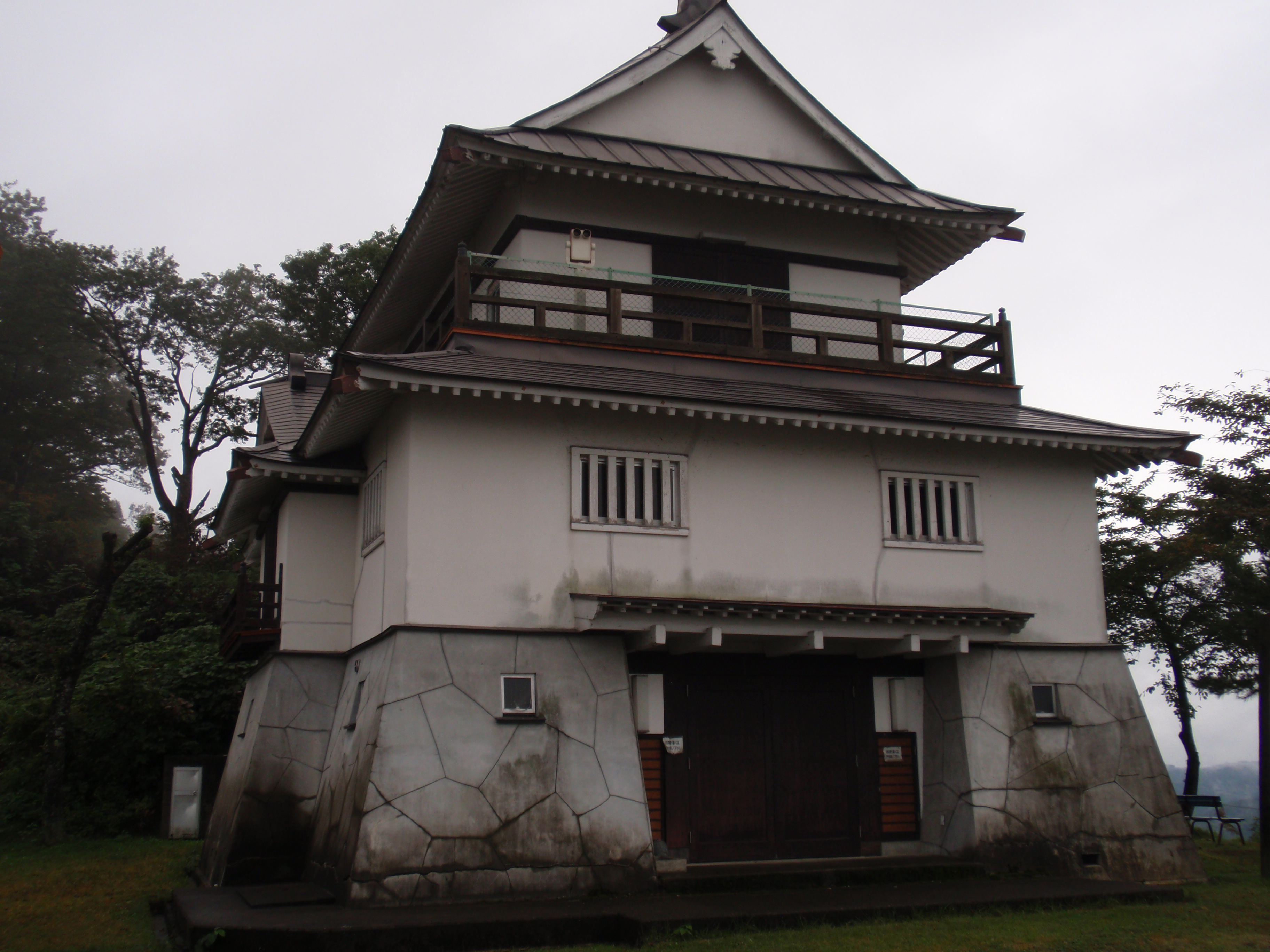 Matsudai Castel in Tookamachi, Niigata Japan.